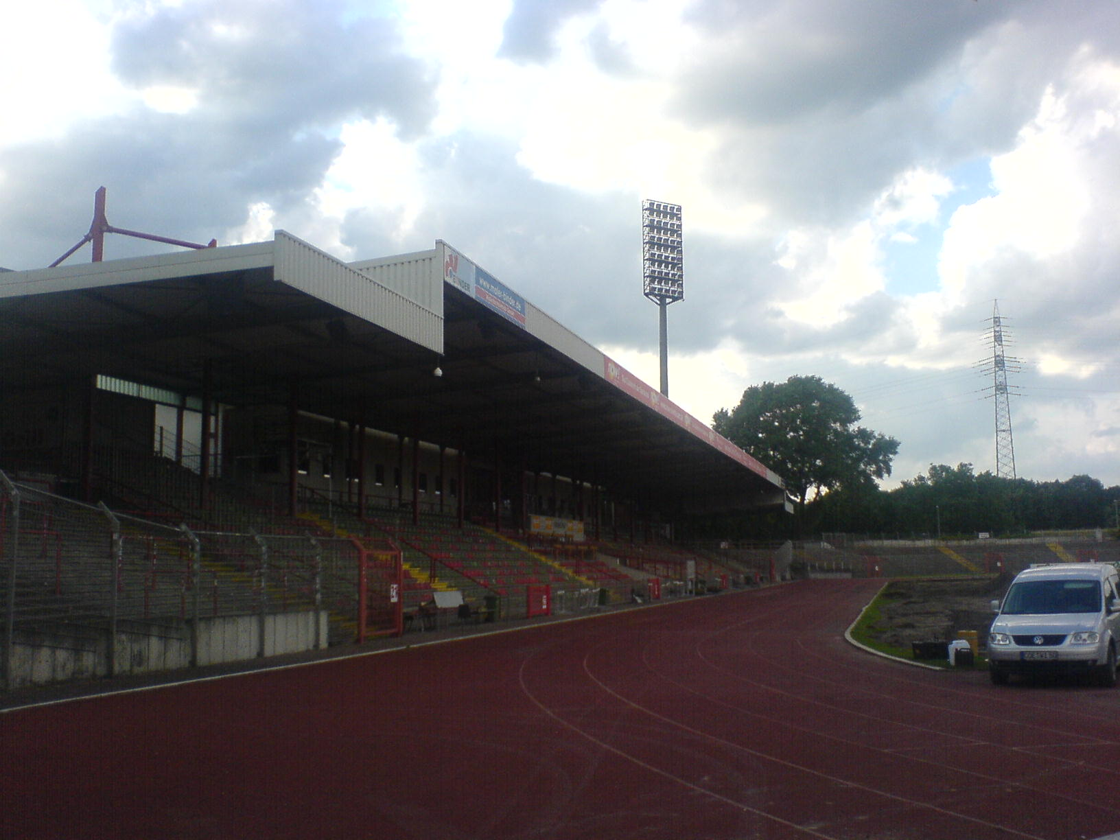 Stadion Niederrhein Oberhausen